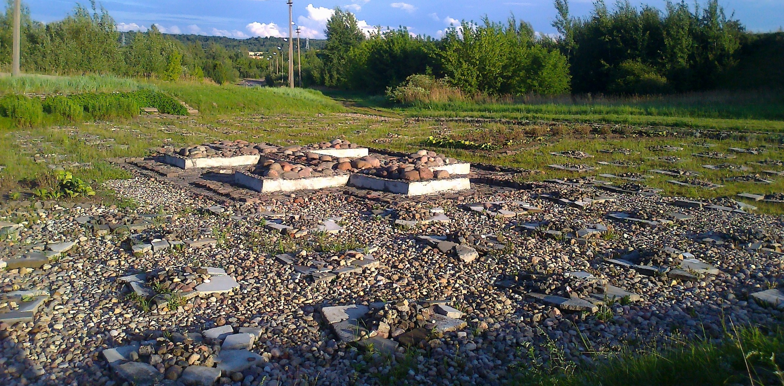 Atminimo laukas, Jonav